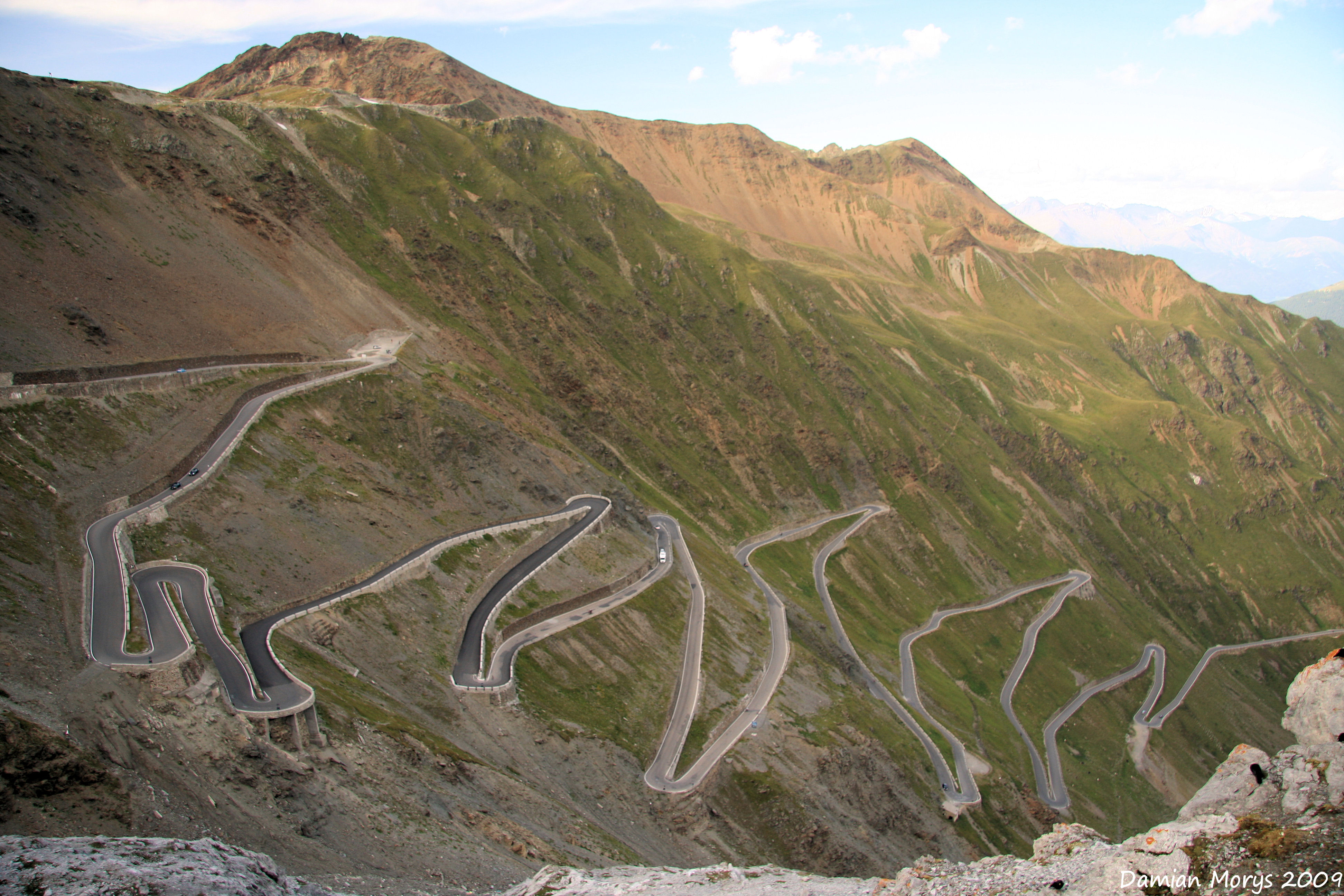 The top quarter of the Stelvio Pass, best driving road in the world according to Top Gear. This is about 2760m (9045 ft) up in the Italian Alps.